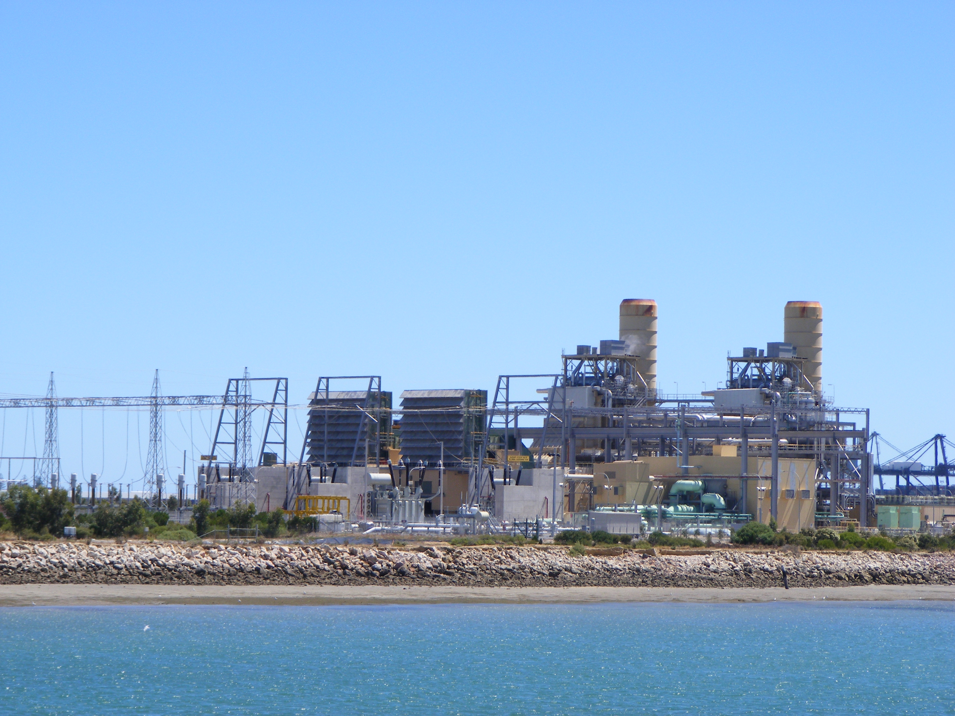 Pelican Point power station at Outer Harbor, Adelaide, South Australia. Port River in the foreground